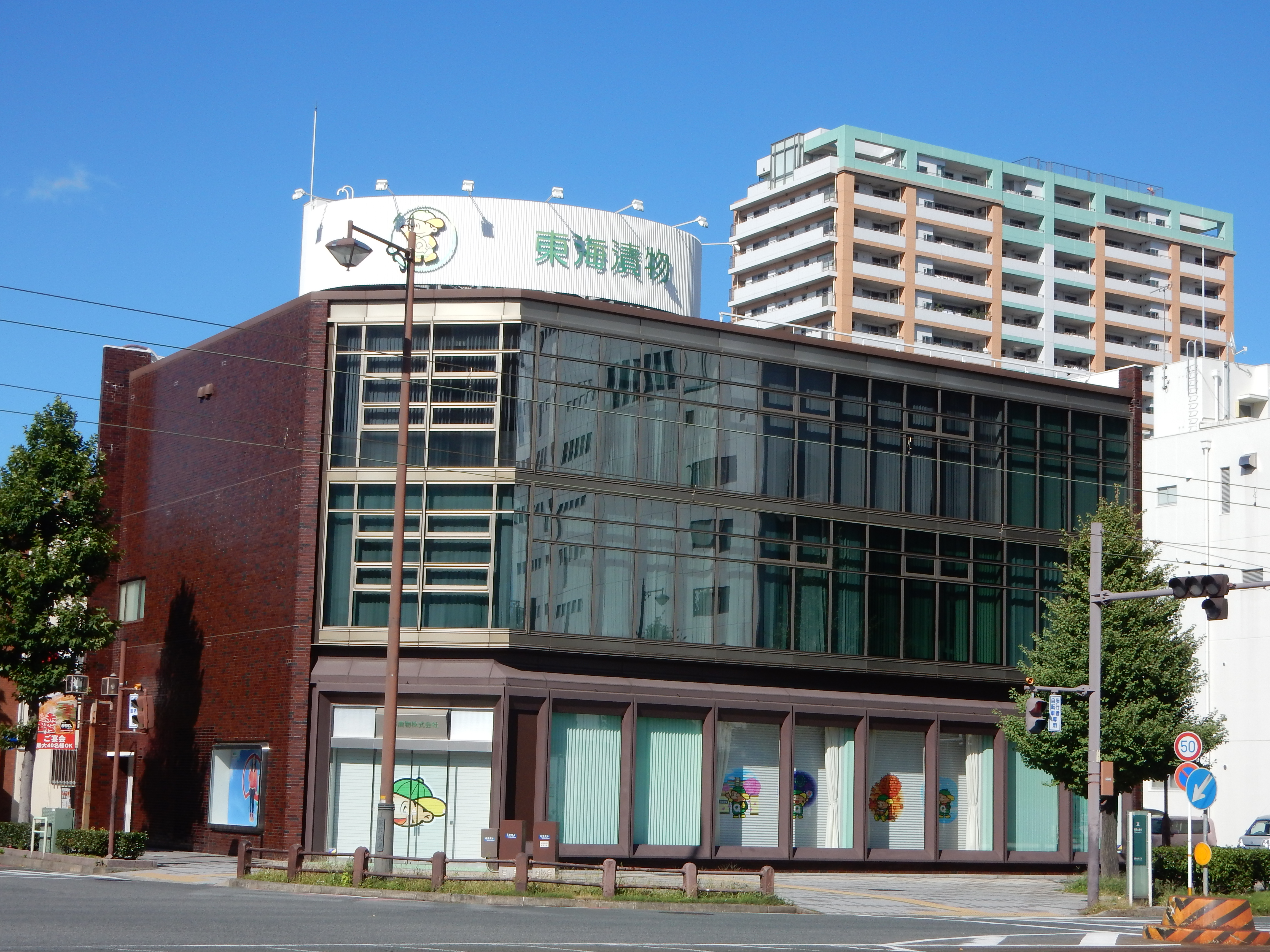 Tokai Pickling (東海漬物 Tōkai Tsukemono) headquarters, located at Ekimae-Odori Toyohashi, Aichi, Japan